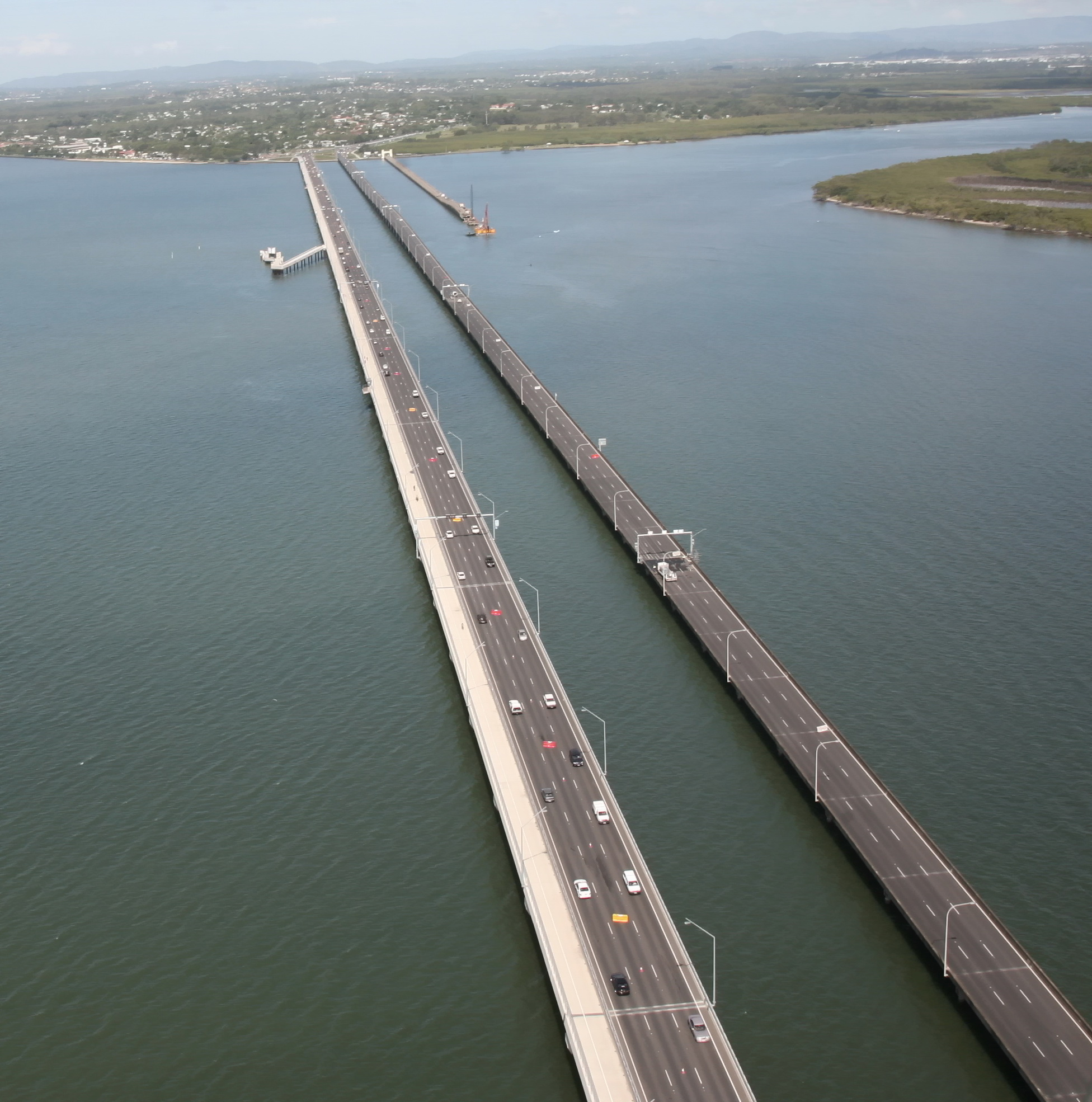 Hornibrook april 2011